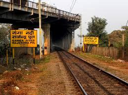 Rajendra Setu (carrying 2 Lane NH 28 at top and single BG electrified line at bottom